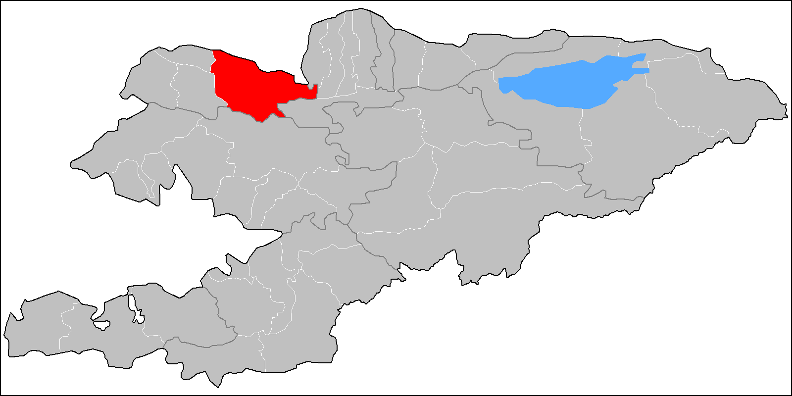 The location of the raion (district) of Talas in Kyrgyzstan. Based on Image:Kyrgyzstan raions.png